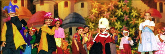 A photo taken at a school play of Wizard of Oz in 2001